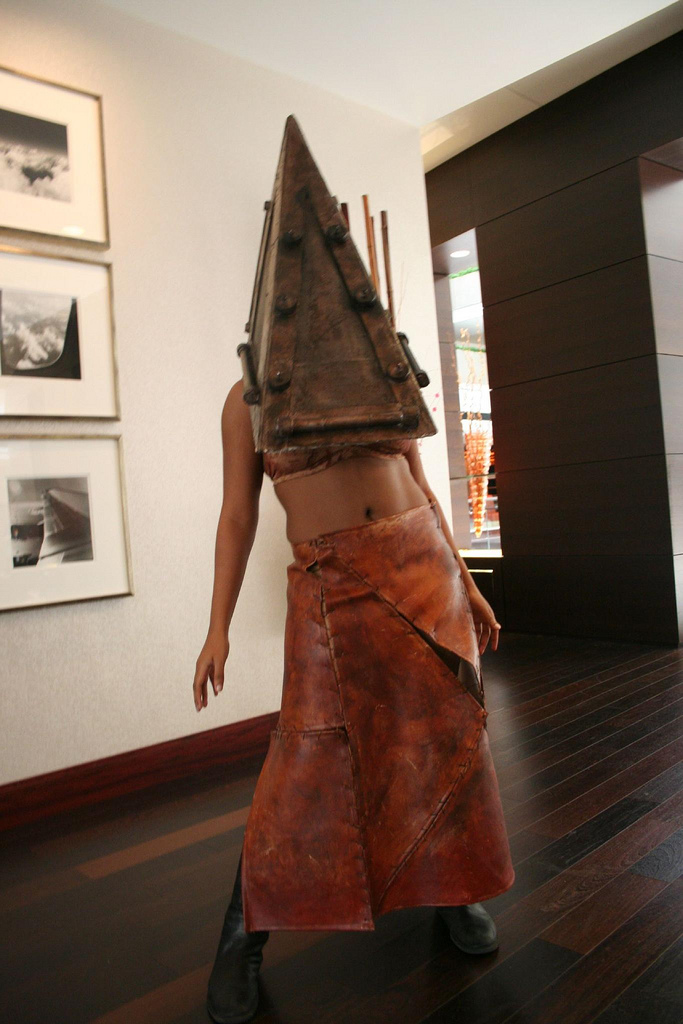 Cosplayer of Pyramid Head from Silent Hill at Anime Central 2008.